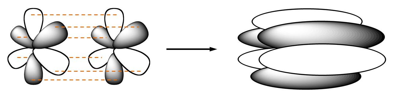 Phi bond between two f-orbitals